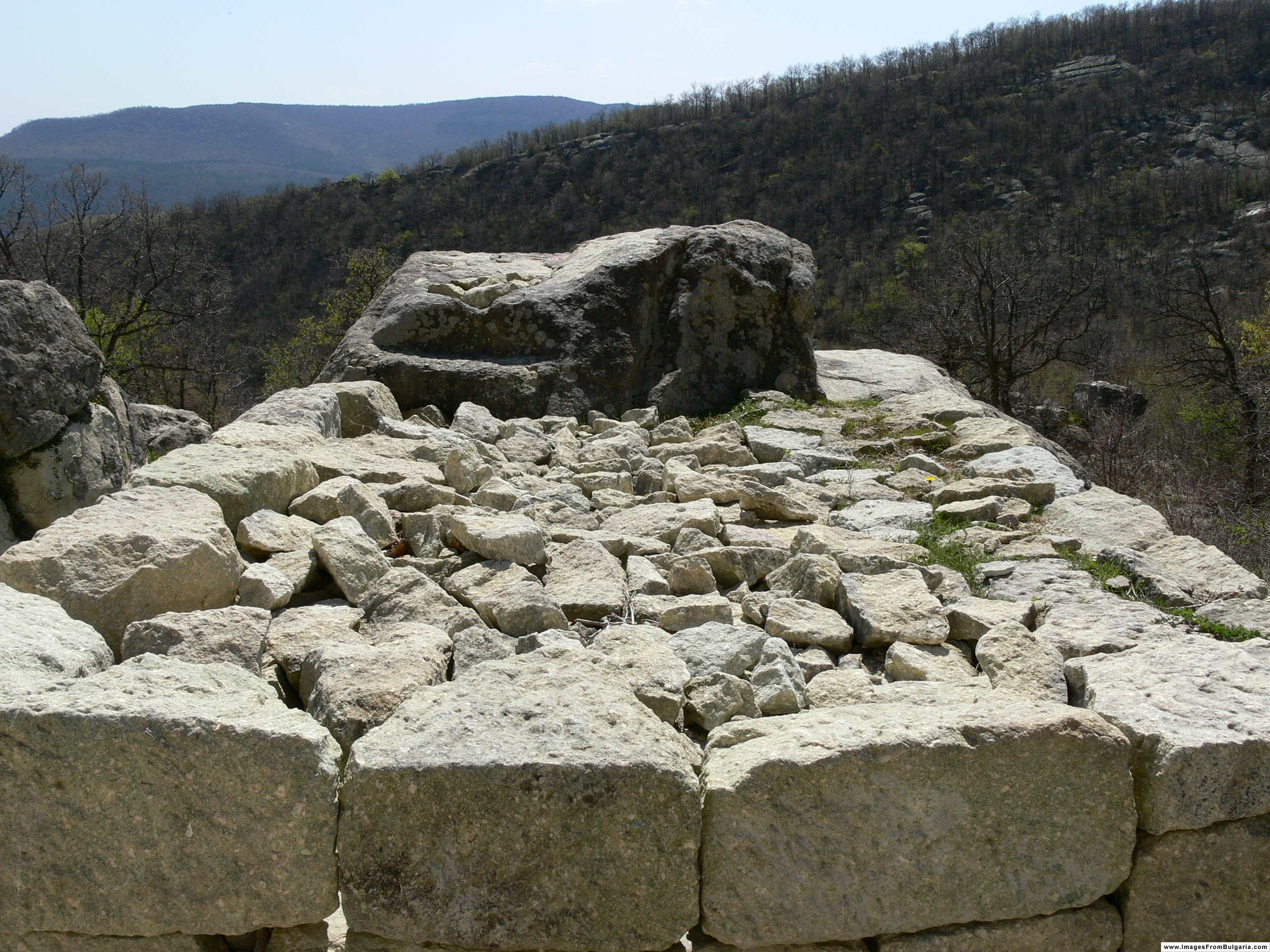 Perperikon — ancient Thracian town in the Rhodope Mountains